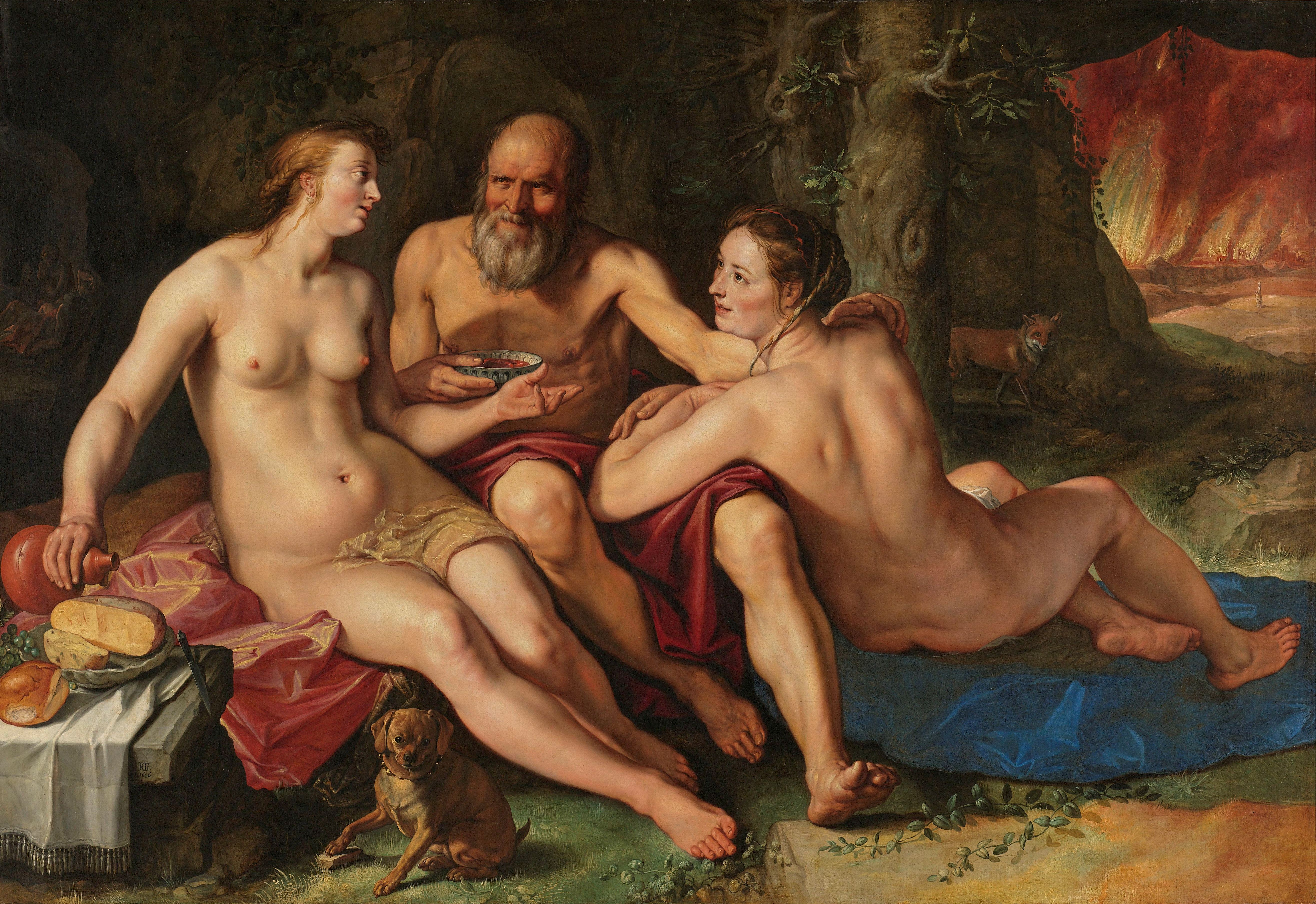 Lot and his daughters. Sitting under a tree Lot's daughters are seducing their father. All three figures are depicted naked and sitting or laying on the ground. The daughter on the left is holding a wine jar. Lot is holding a wine-drinking cup in his right hand. Bottom left stands a small table with cheeses and bread. A little dog is sitting by it. In the background on the right Sodom and Gomorra are burning. In front of the fire Lot's wife, who was turned into a pillar of salt, is standing. Behind the tree a fox looks on.